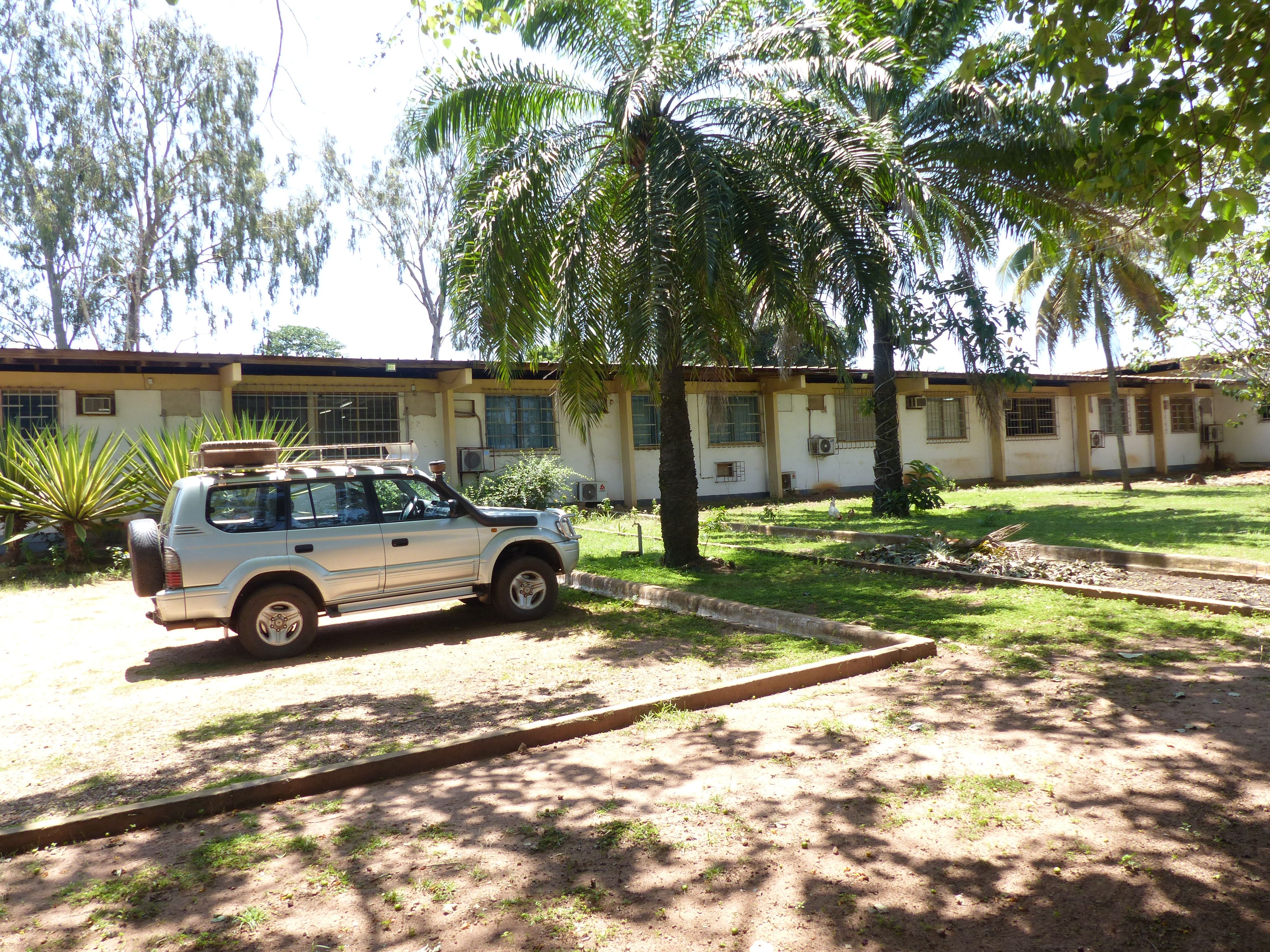 View of a courtyard of the Pierre RIchet Institute (Bouaké, Ivory Coast) showing the laboratories